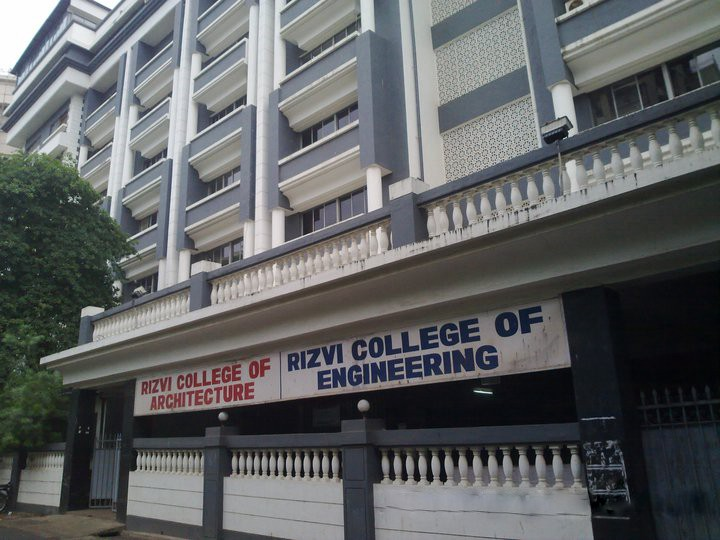 common entrance of engineering and architecture colleges of the rizvi education group.